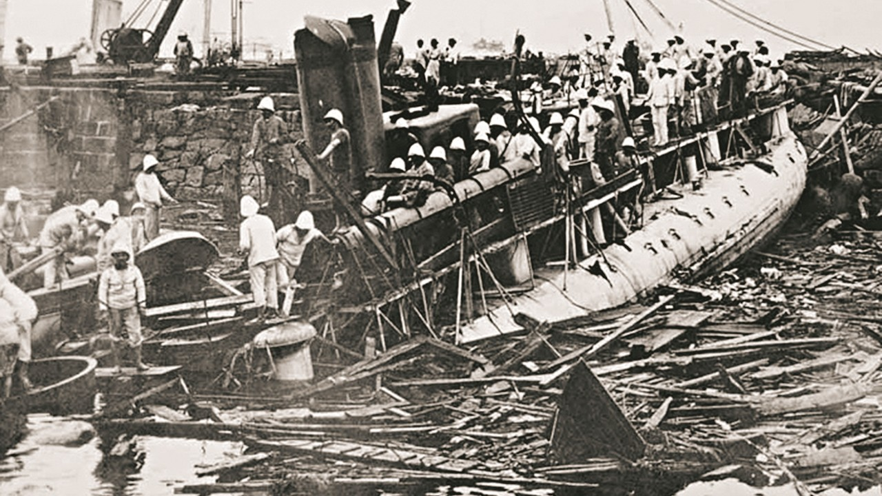 The wreck of the Fronde in 1906 after the infamous typhoon hit Hong Kong